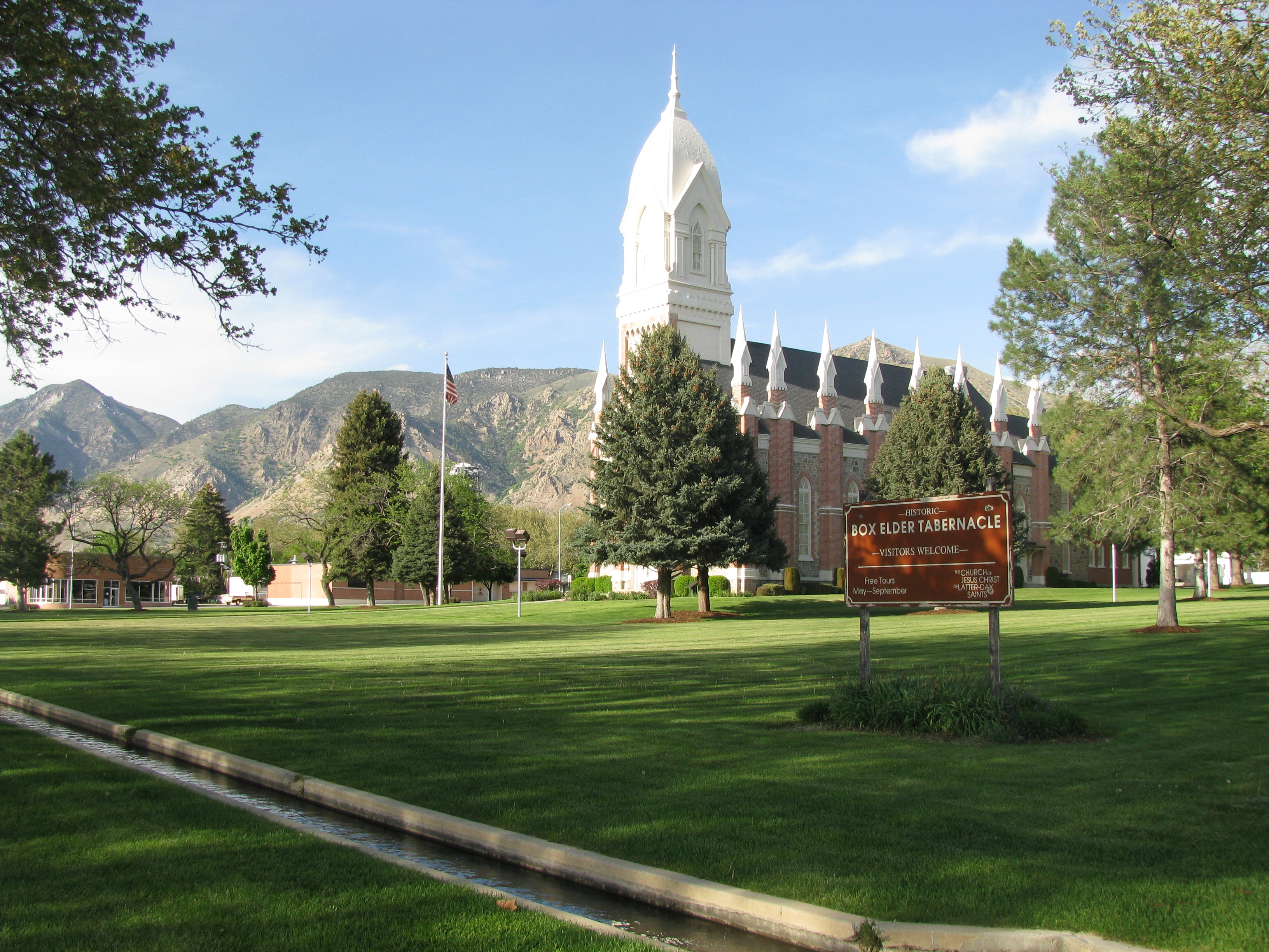 Box Elder Stake Tabernacle of The Church of Jesus Christ of Latter-day Saints located in Brigham City, Utah